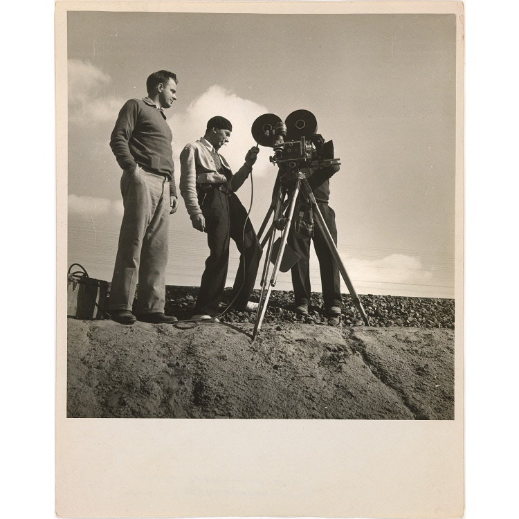 Exhibition Label